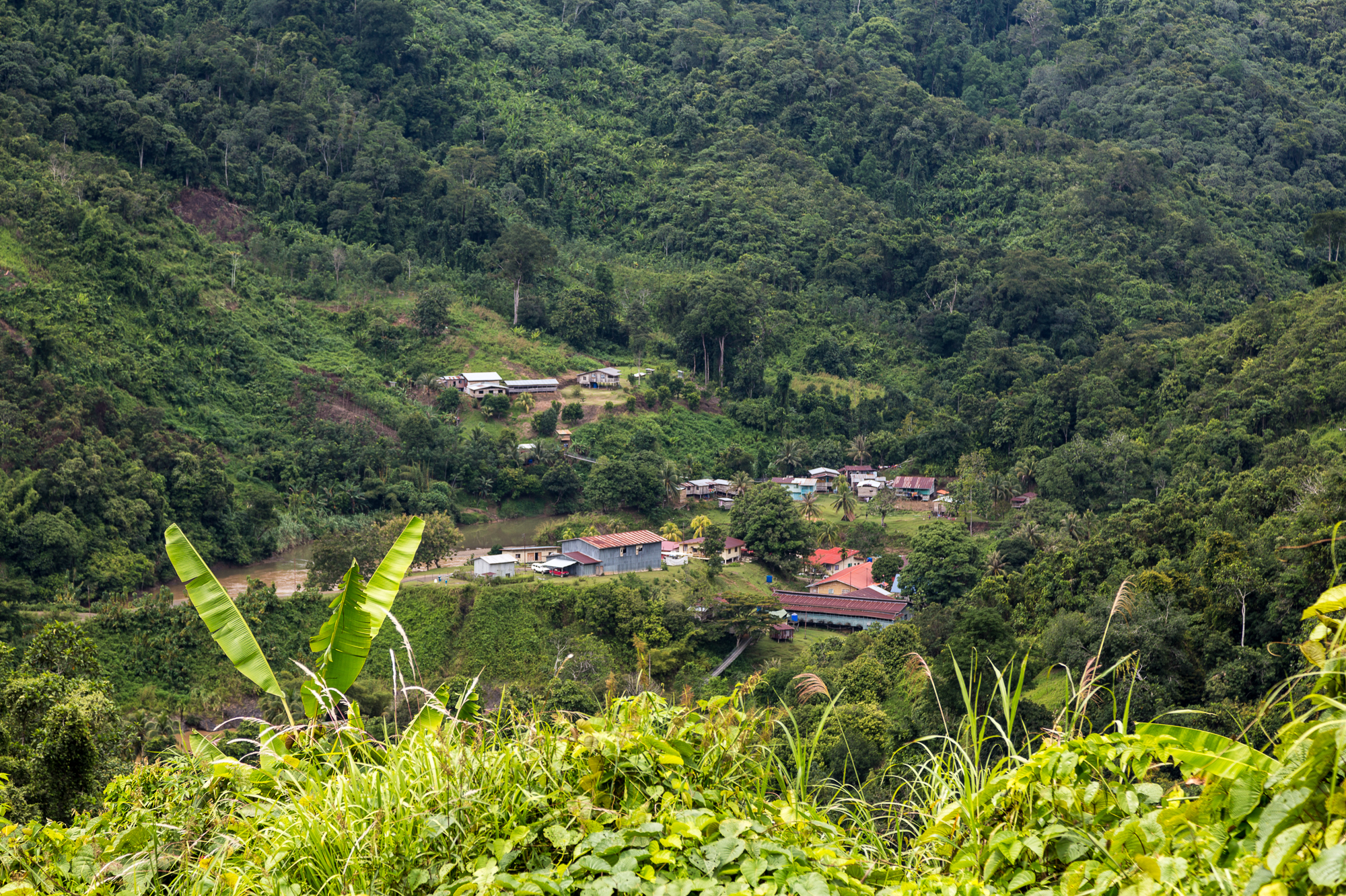 Pensiangan, Sabah, Malaysia: View of Pekan Pensiangan, one of the most remote towns of Sabah